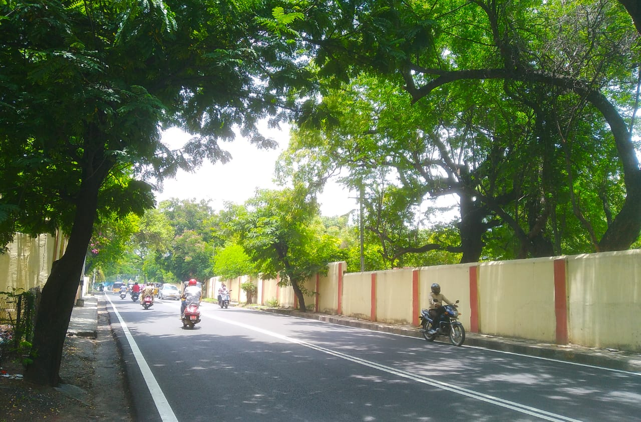 Road in Mettuguda